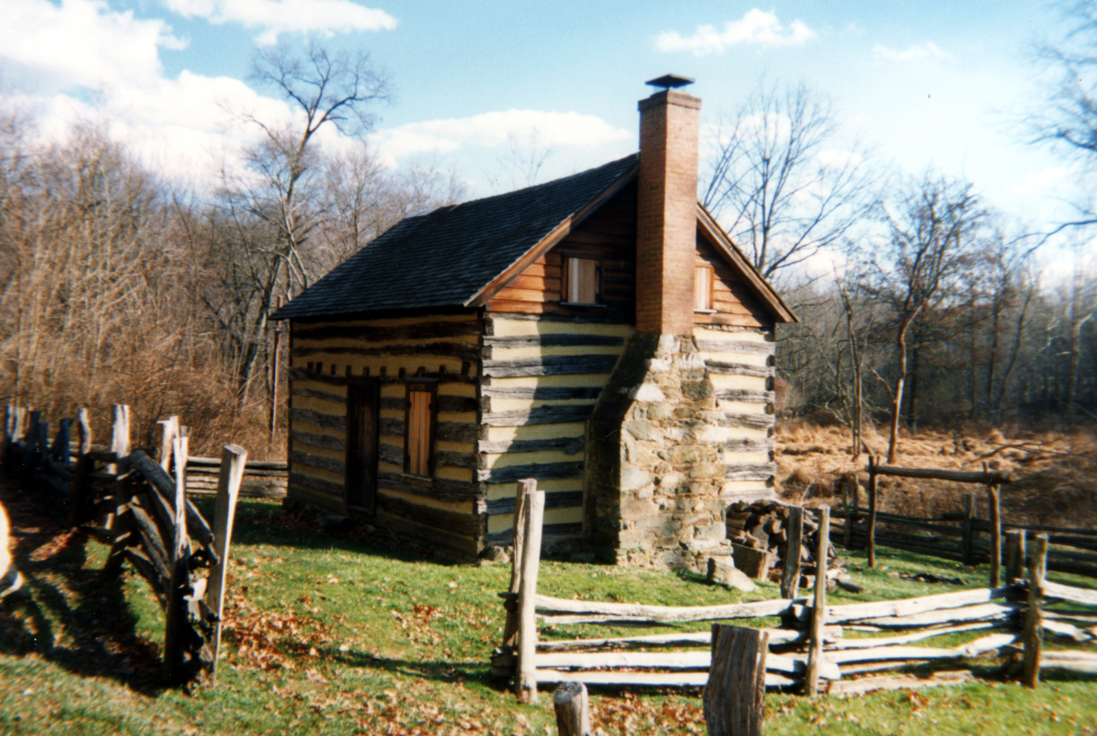 Oakley Cabin, in Brookeville, Maryland, was built around the time of the Civil War to house slaves and tenants at the Oakley Farm.